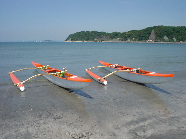 Typical Modern Polynesian Outrigger Canoe, TAIKI FUKUNAGA